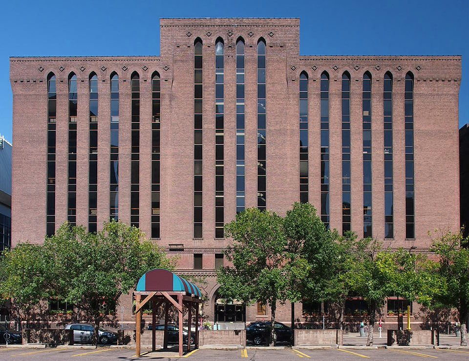 Butler Square, 100 N 6th St, Minneapolis, Minnesota, USA. Viewed from the southeast.